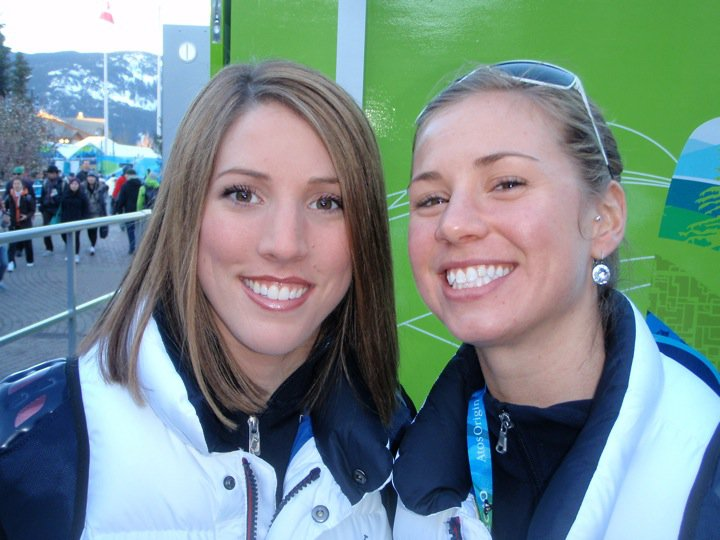 Erin Hamlin and Megan Sweeney, USA Luge, Olympic Athletes. Photo by Hannah Kiefer.